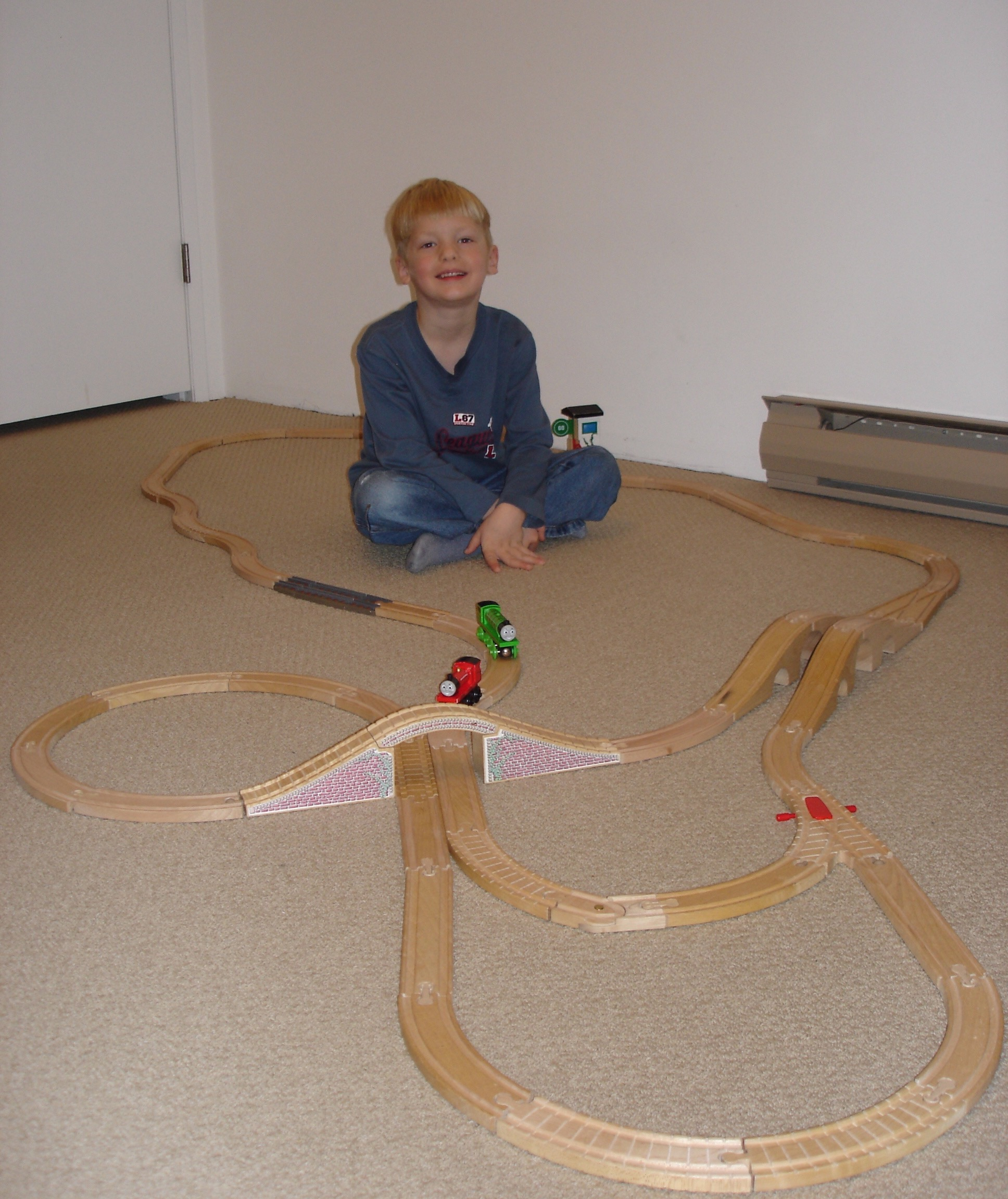 A five-year-old Ethan Koetsier plays with Thomas the Tank Engine.